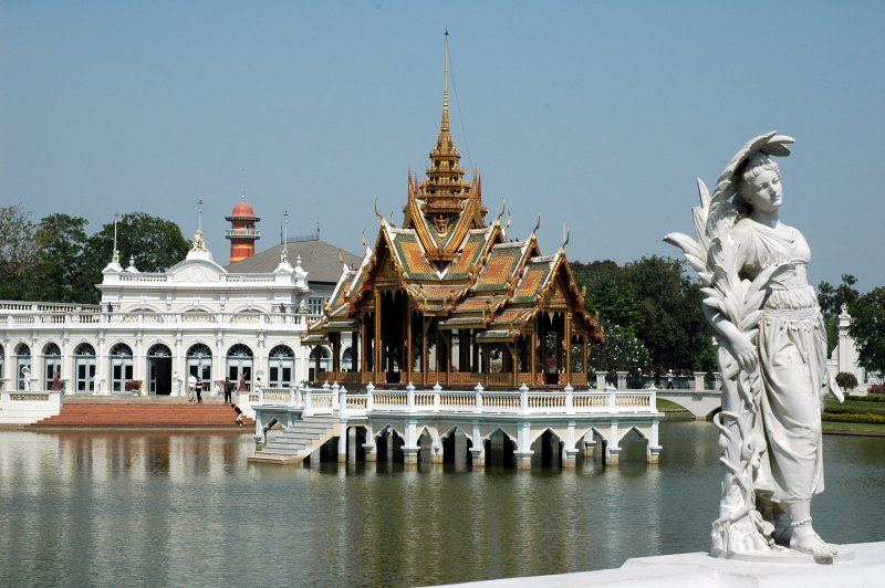 Aisawan Thiphya-At, Bang Pa-In, Thailand.